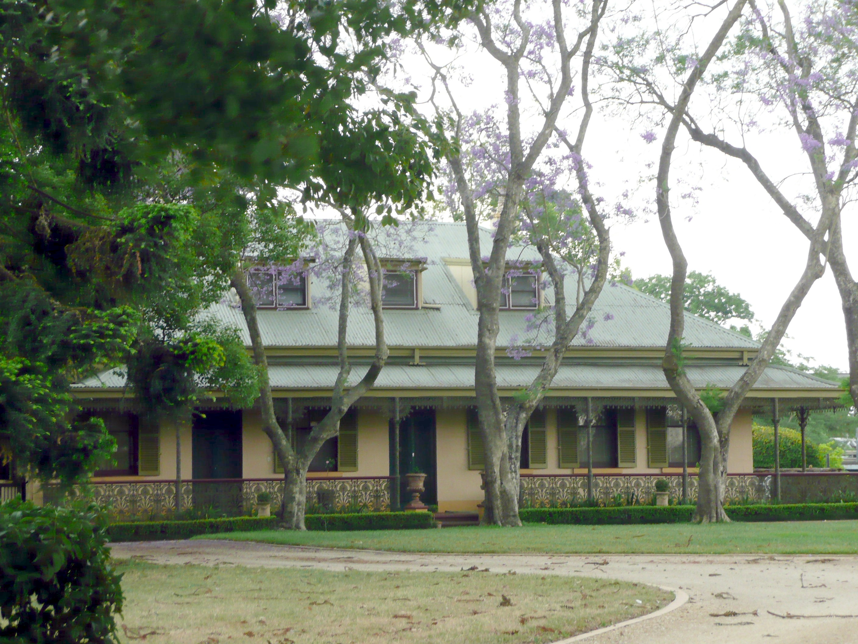 home in sydney